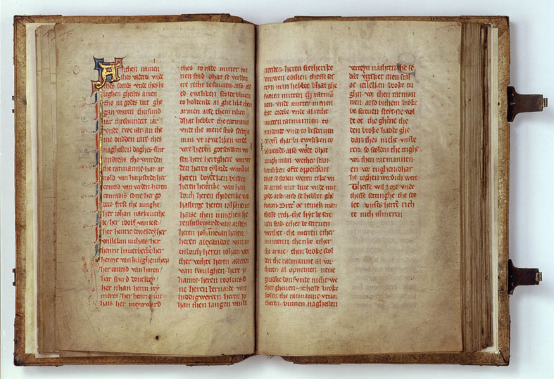 One of four books of the municipal law of the city of Bremen, Germany, from 1303/1308.